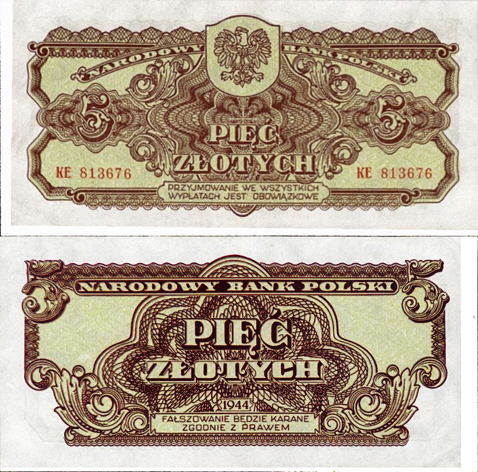 5 Zloty Poland Liberation Banknote